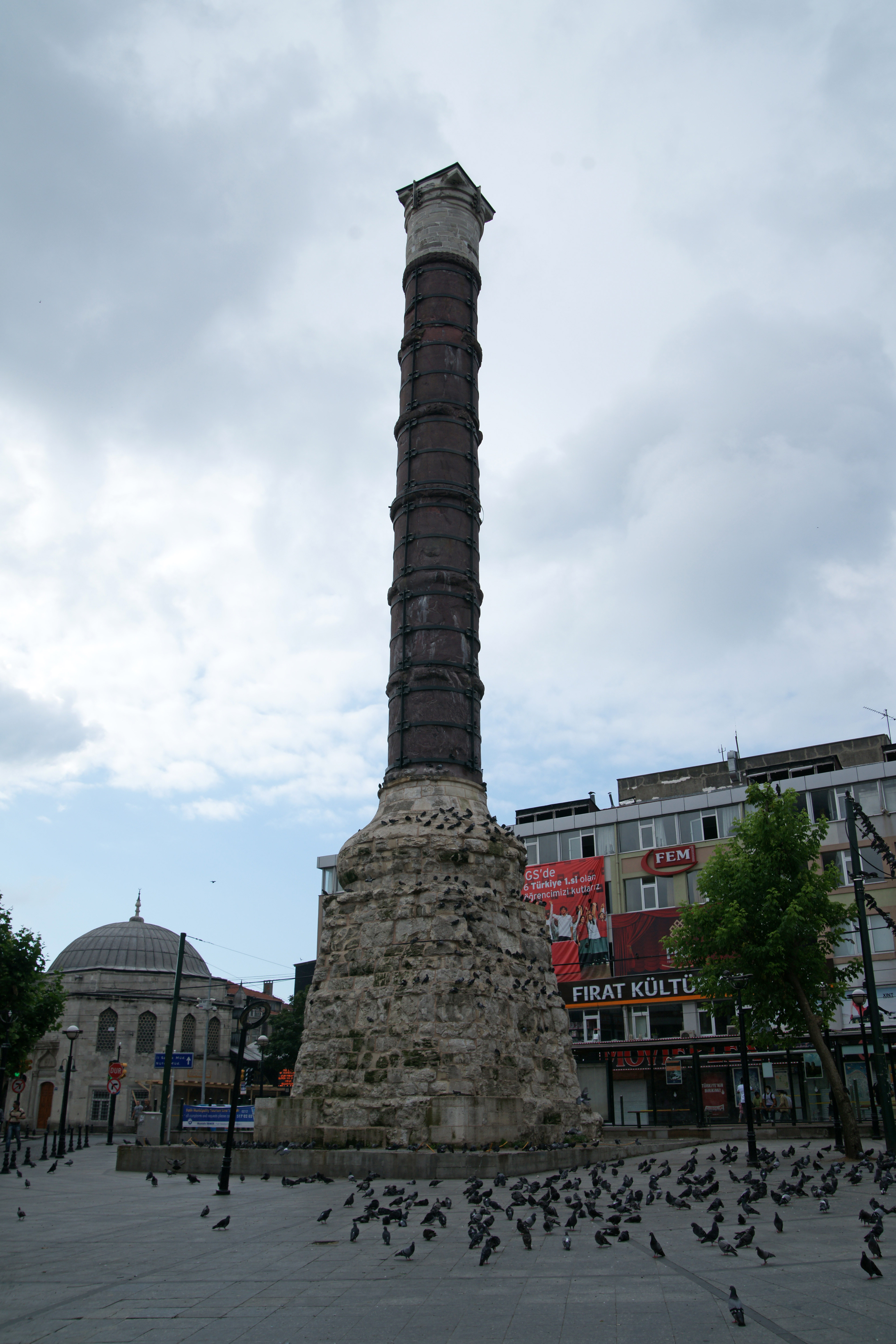 The Column of Constantine (or 'Burnt Column') (Turkish: Çemberlitaş sütunu) is a Roman monumental column constructed on the orders of the Roman emperor Constantine the Great in 330 AD. The column is located on Yeniçeriler Caddesi in central Istanbul.